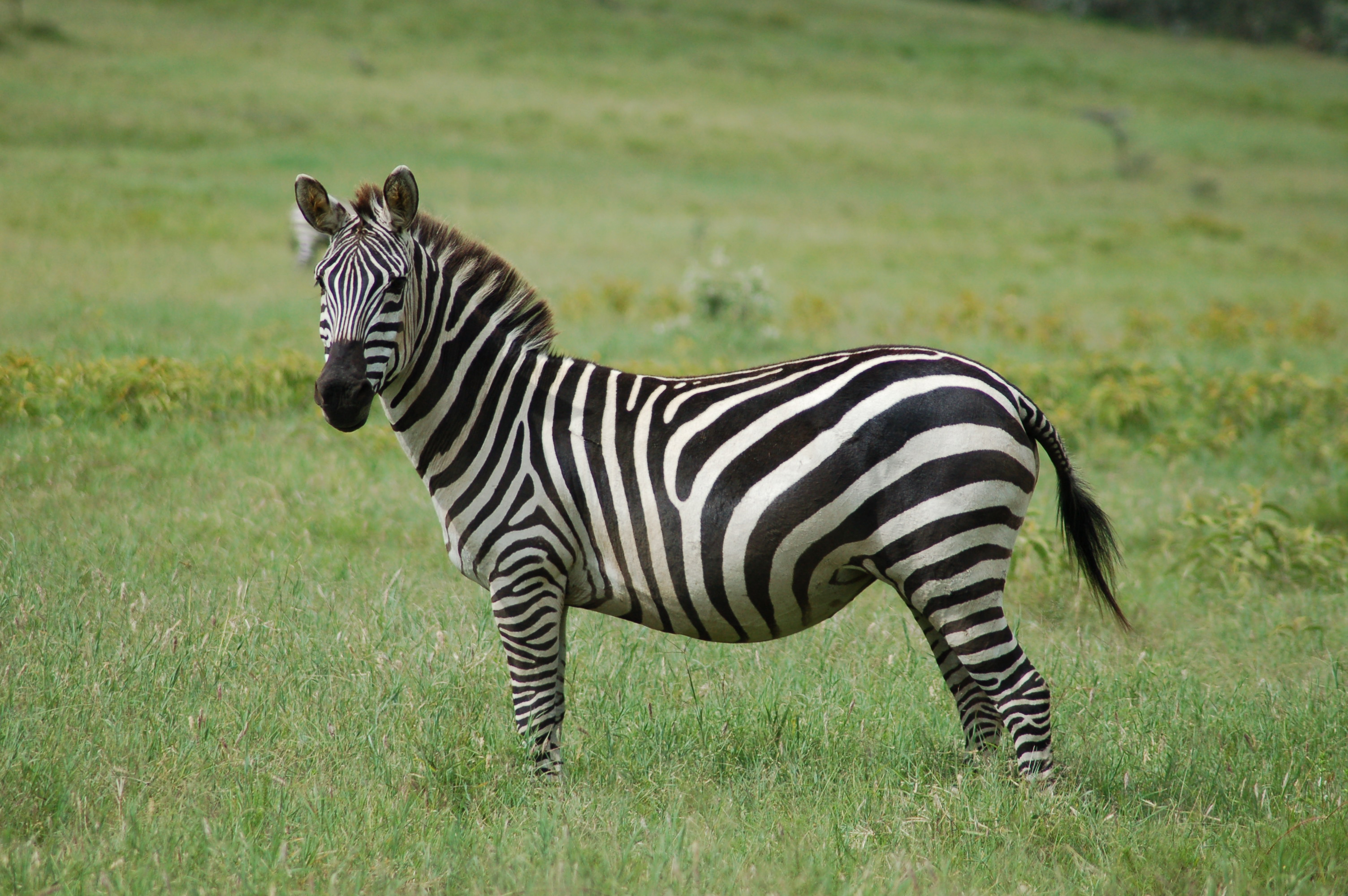 A Plains Zebra (also known as the Common Zebra) at Hell's Gate National Park, Kenya.